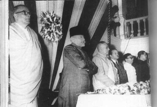 Formal opening of the National Library, on 1st February 1953 Above: ( L to R ) Dr. B. C. Roy, the Maulana Abul Kalam Azad, Dr. H.C. Mukherjee, Dr. S. S. Bhatnagar, Prof. Humayun Kabir and Sri B.S. Kesavan.